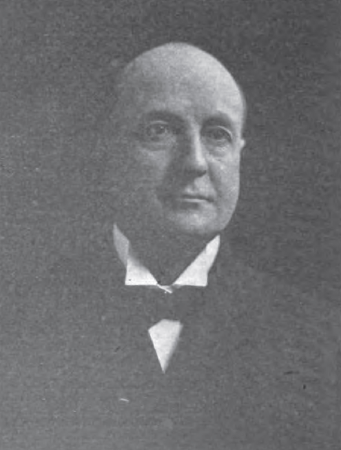 Ohio politician named James Kennedy